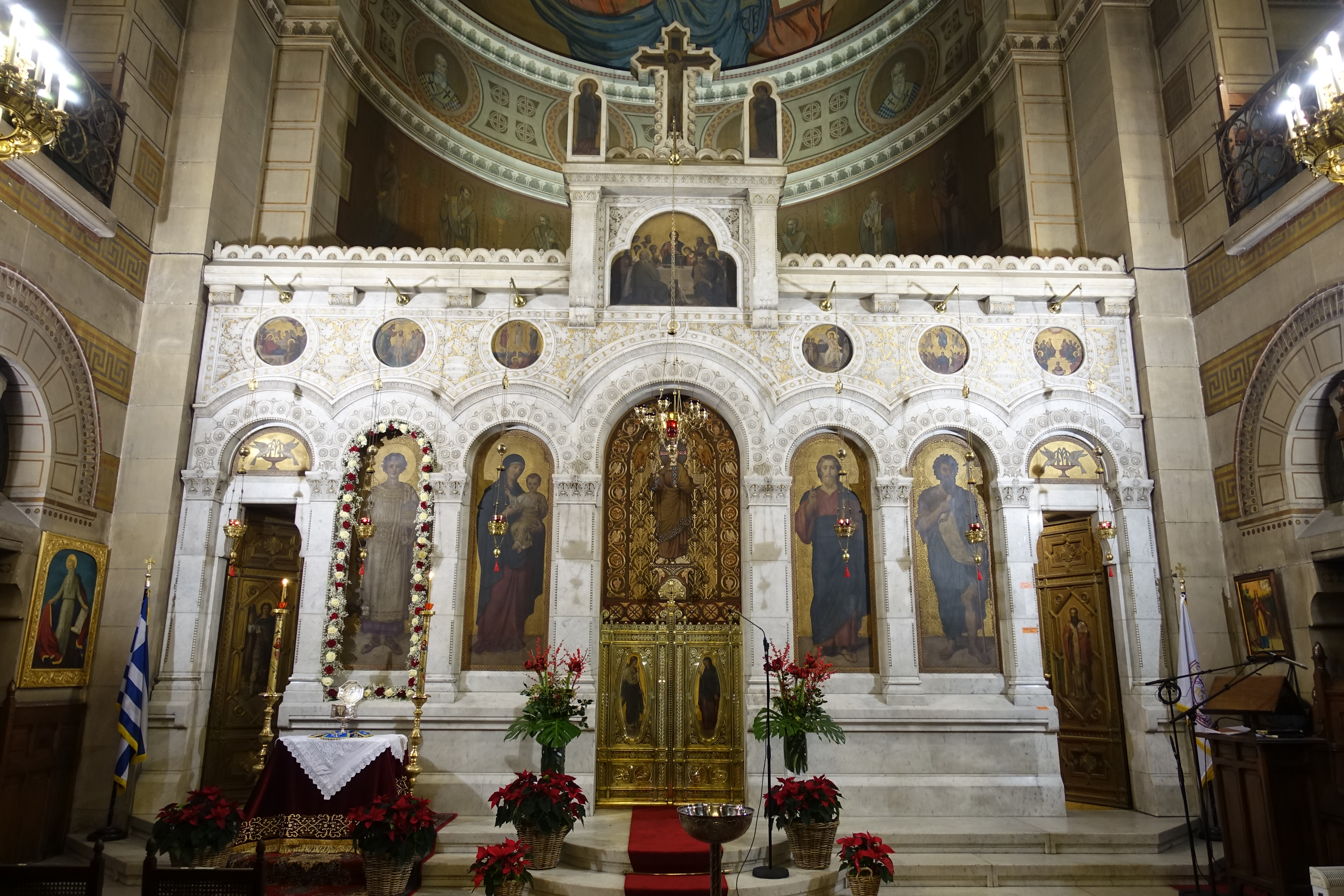 Eglise Orthodoxe Grecque, a Orthodox church in Paris, France. Address: 7 Rue Georges Bizet, 75016 Paris, France.